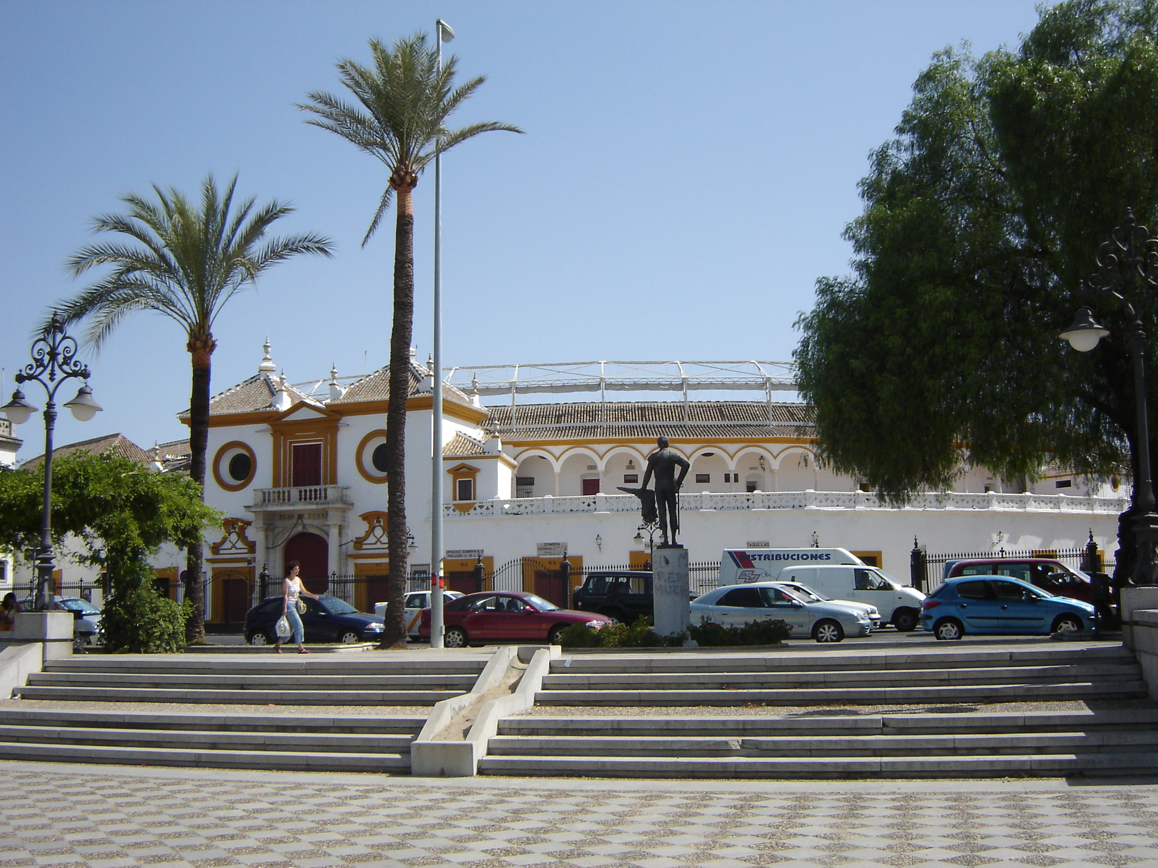 Photographer: Patrick Morin Place: Sevilla (Spain) Description: Plaza de Toros Date: August 4th 2005